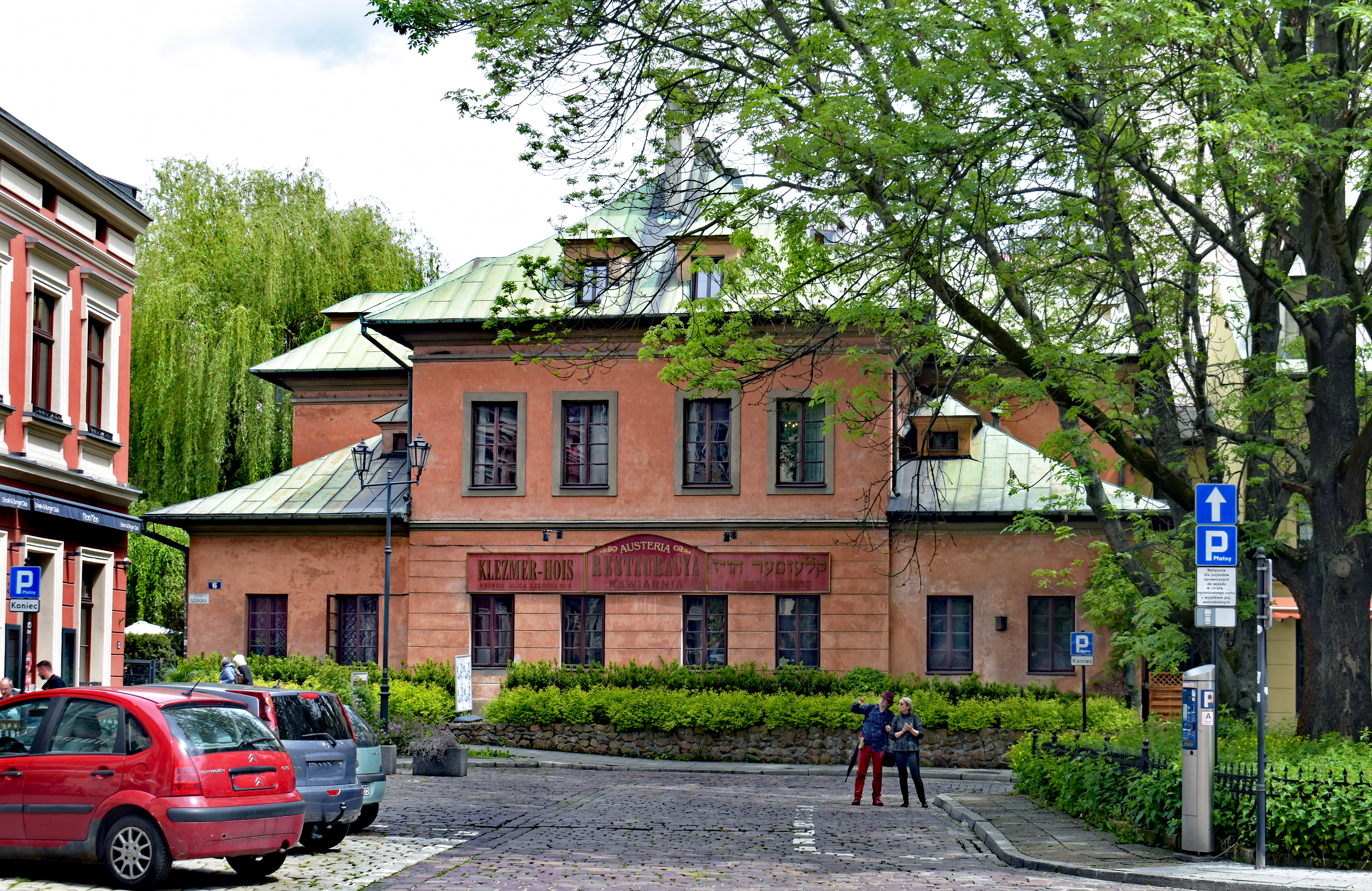 Great Mikveh, 6 Szeroka street,Kazimierz,Krakow,Poland